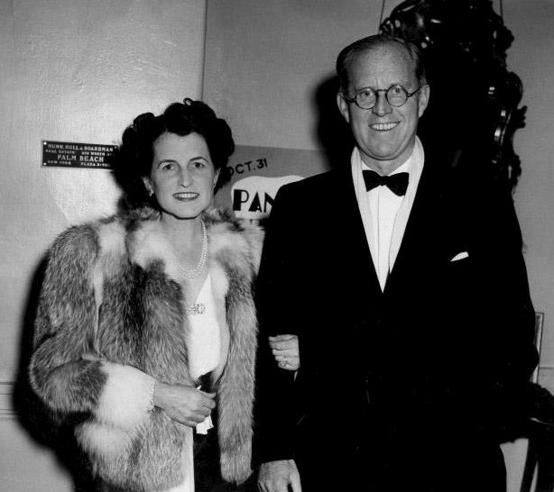 Photo of Joseph and Rose Kennedy as they arrive for dinner at the Colony restaurant in New York. At the time, Joseph Kennedy was the United States Ambassador to Great Britain.